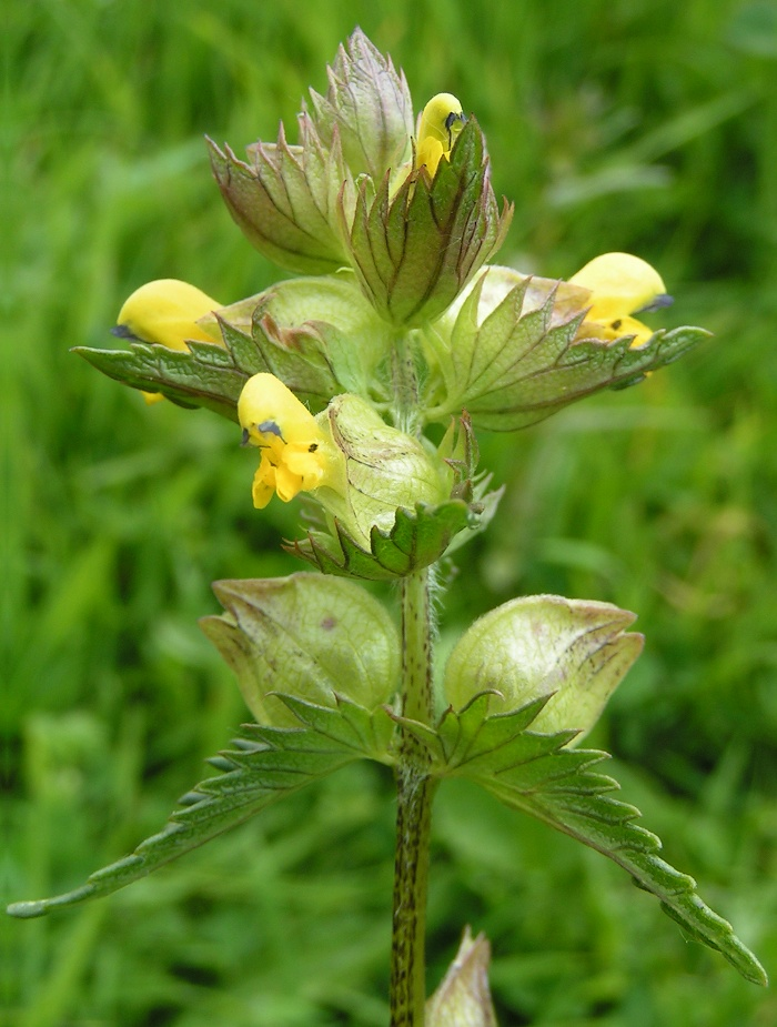 Yellow-rattle Rhinanthus minor, Great Holland Pits, Essex, England